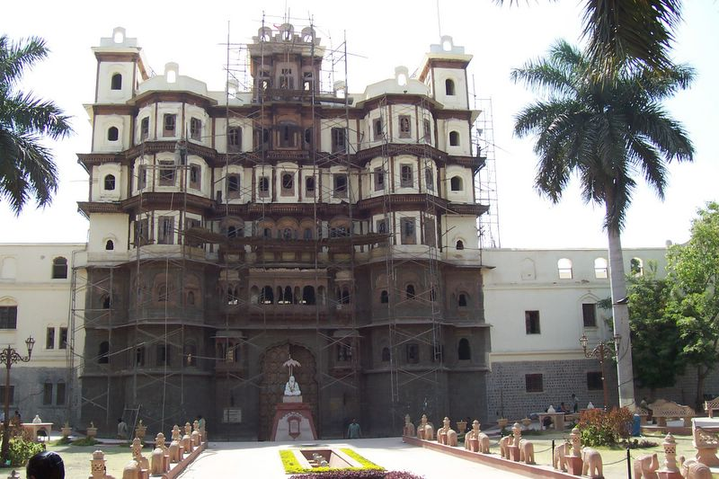 Rajwada is landmark of Indore, India